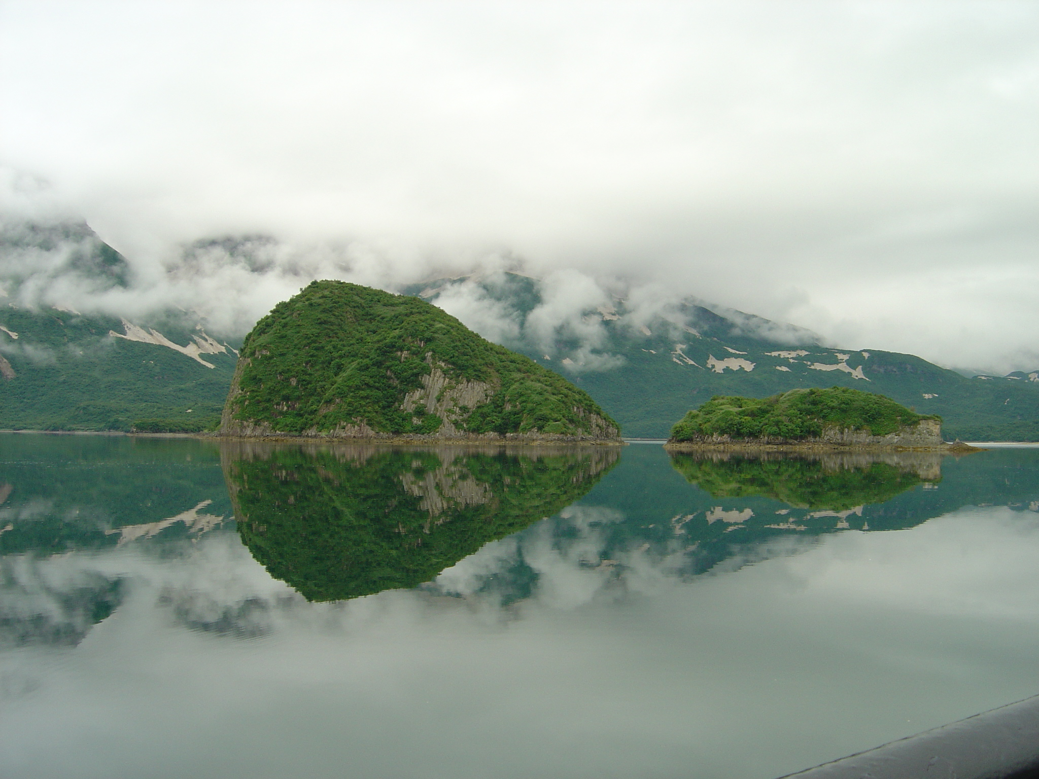 Magnificent scenery of Geographic Harbor reflected off still waters. Alaska Peninsula, Alaska.